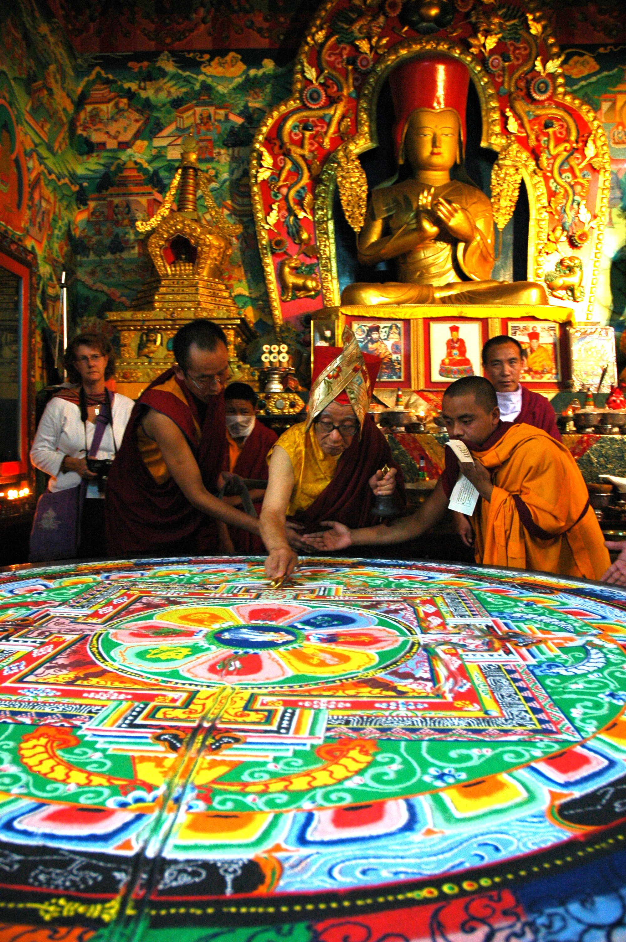 HH Dagchen Rinpoche closes the Hevajra Mandala of colored sand using a gold dorje, a Statue of Sakya Pandita looks on, while monks hold back his robe.